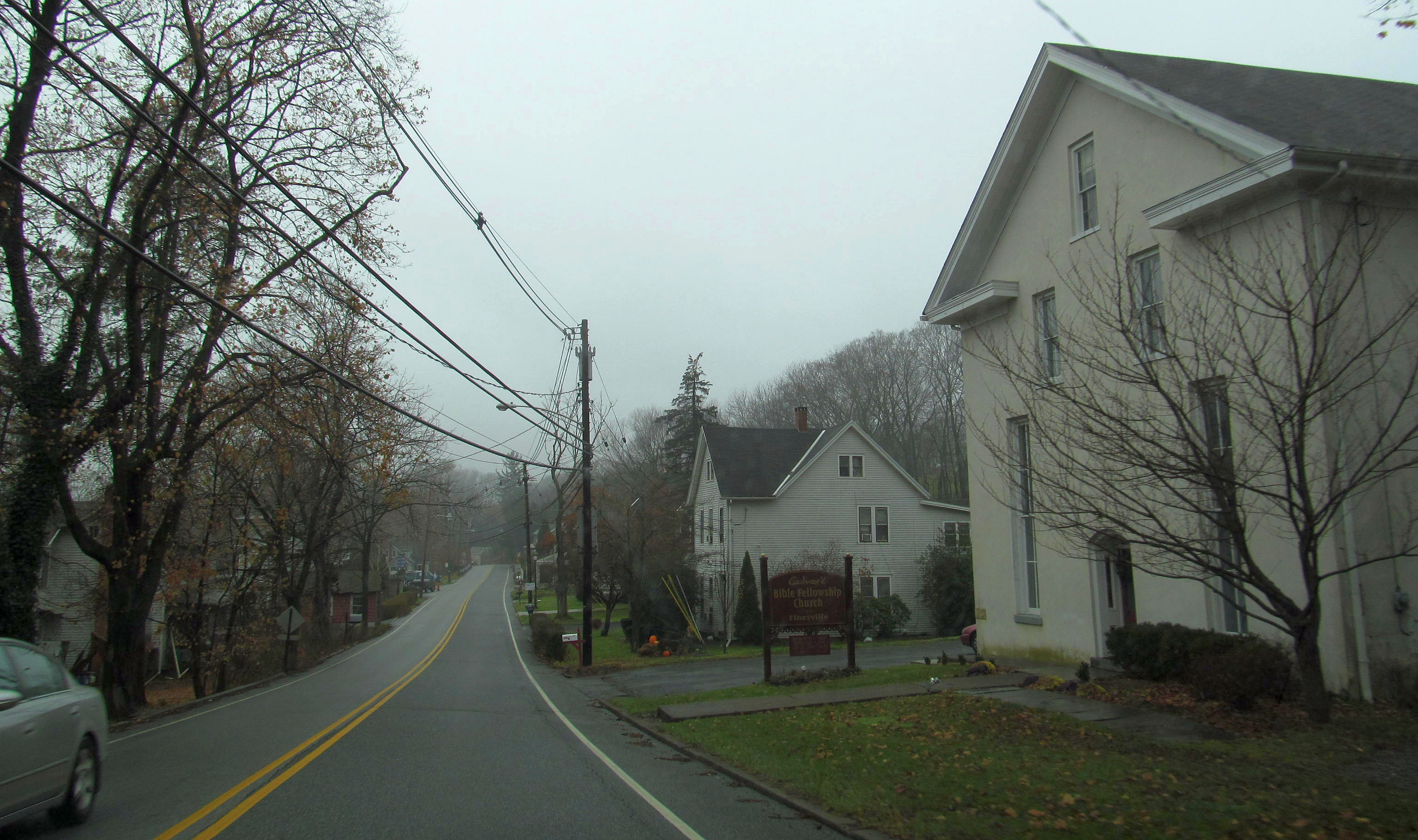 On the right is Calvary Bible Fellowship Church in Finesville, New Jersey.